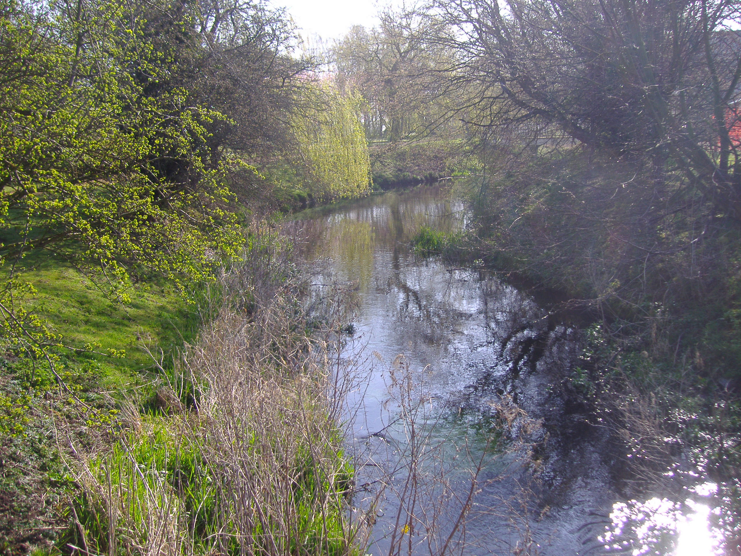 A Digital Photograph of the River Heacham